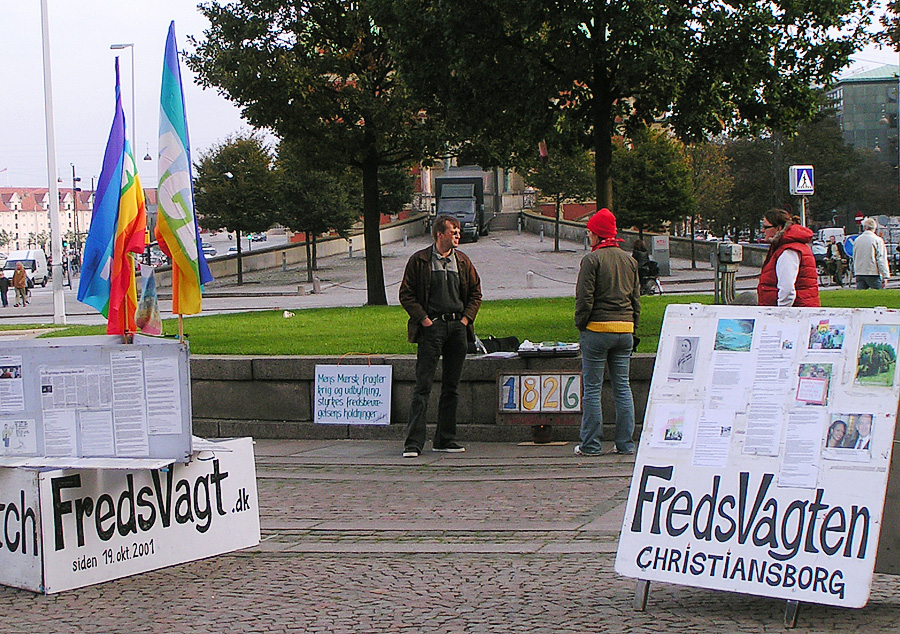 "The Peace Guard" have a permanent demonstration outside Christiansborg Palace against Denmarks participation in the ongoing war